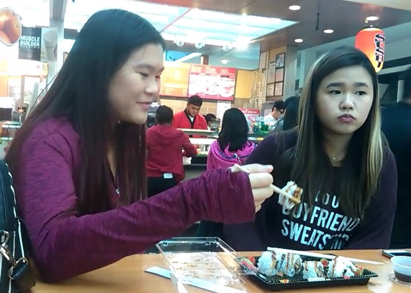 Two women eating sushi with chopsticks in the United States.